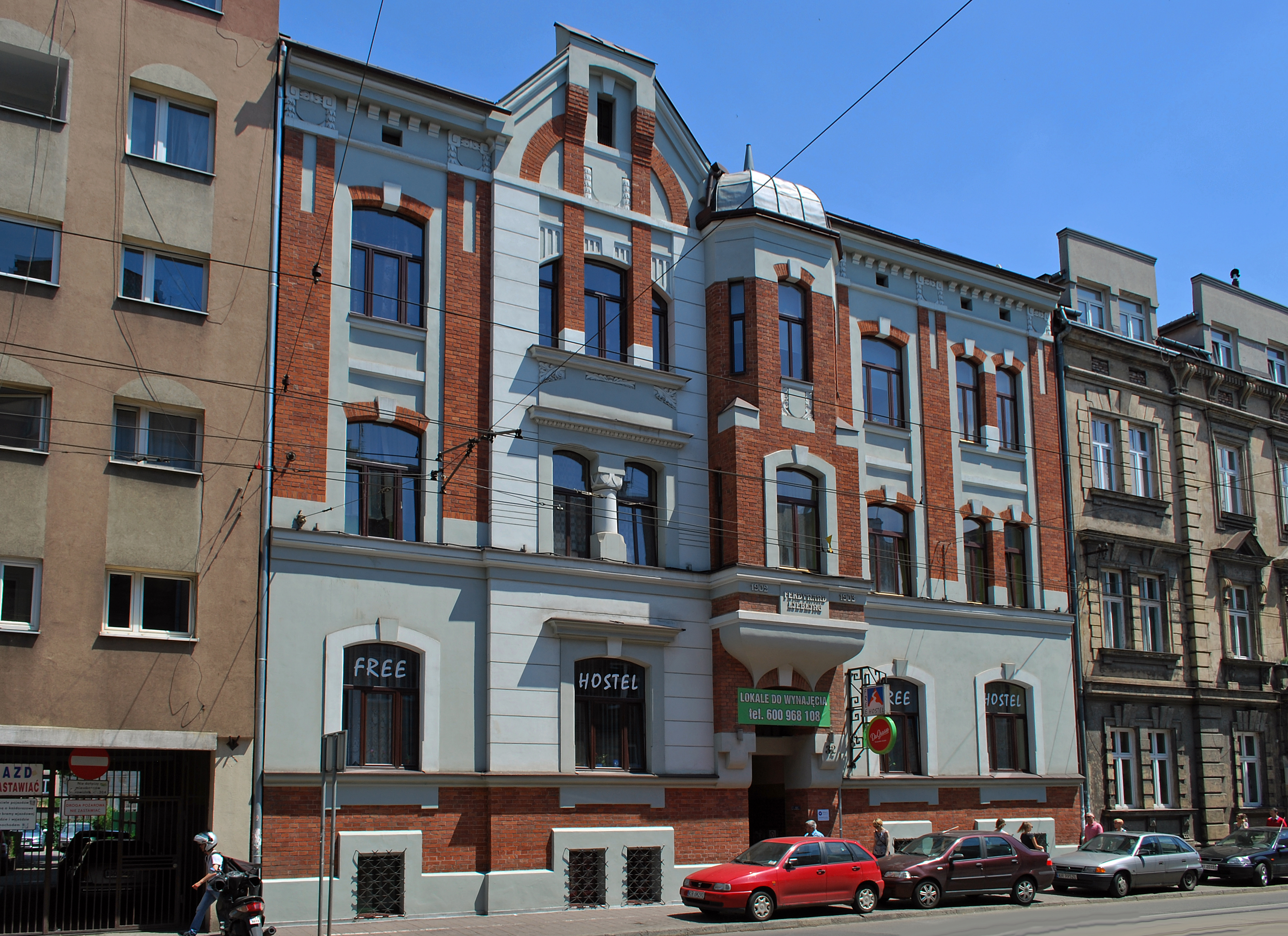 Tenement house, 1902 designed by Ferdynand Liebling, 32 Starowislna street, Kazimierz, Krakow, Poland